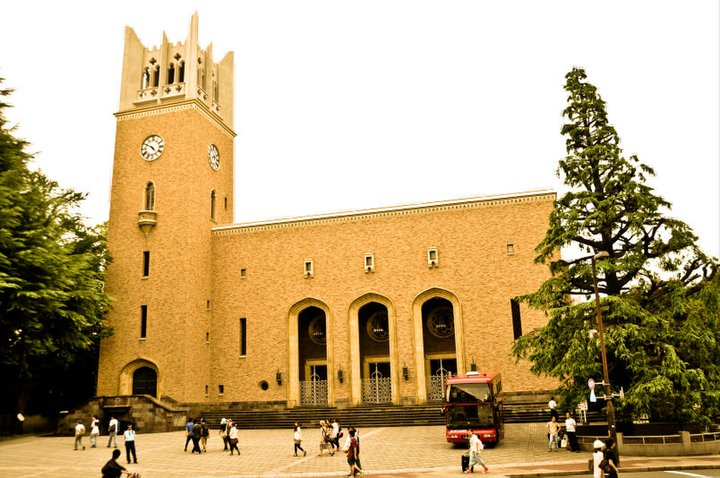 One of the buildings in Waseda University